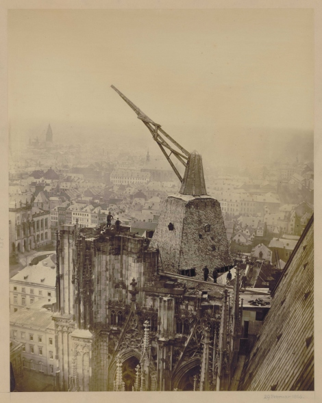 14th century crane on the south tower of Cologne Cathedral, photograph taken by Theodor Creifelds (1839-1902) on February 29th, 1868. The demolition of the crane began the very next day.